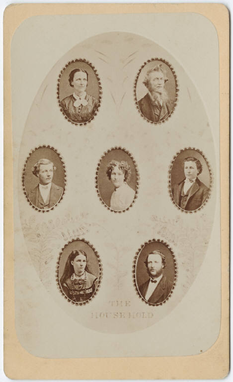 Author/Creator: Dowe, L. Part of: Carl Mautz collection of cartes-de-visite photographs created by California photographers. Physical Description: 1 photographic print cartes-de-visite, b&w approx. 9.0 x 5.7 cm. on mount 10.7 x 6.5 cm. Folder or box number: Folder Dowe, L. Genre/Form: Photographs Cartes-de-visite Photographic prints Studio portraits Cite as: Yale Collection of Western Americana, Beinecke Rare Book and Manuscript Library Repository: Beinecke Rare Book & Manuscript Library, Yale University Bibliographic Record Number: 2015125 Call Number: WA Photos 357 View our Record: Permalink Flickr data on 2011-08-25: License: CC BY-SA 2.0 User: Beinecke Library